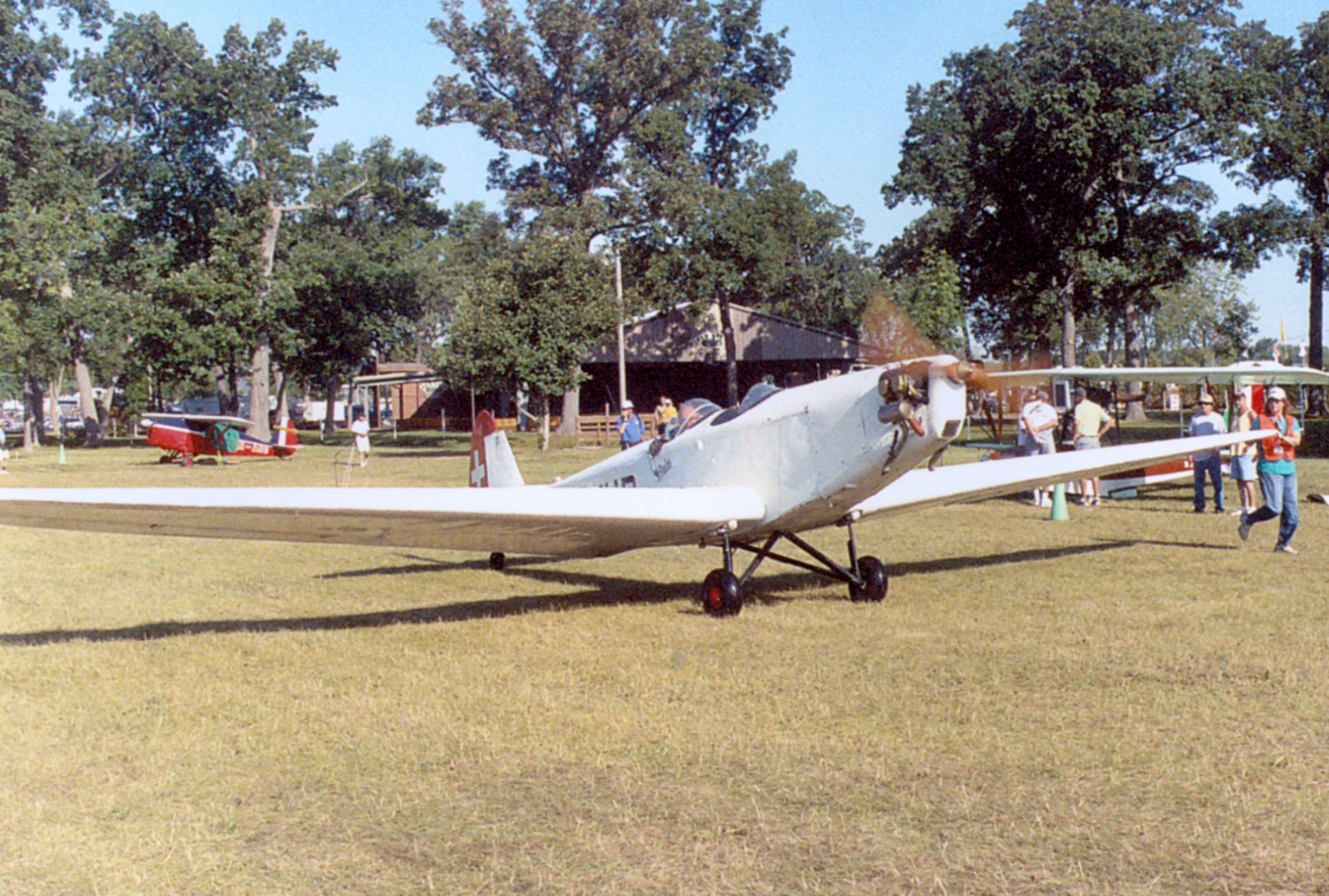 KLEMM L-25-D11